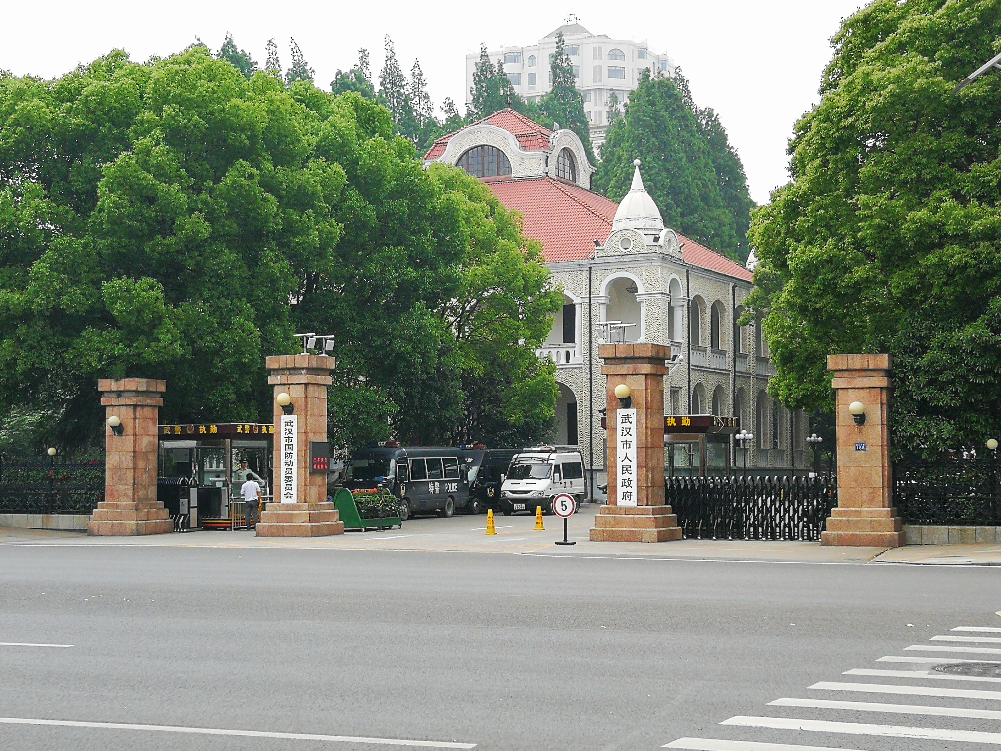 The Main Gate of Wuhan Municipal People's Government